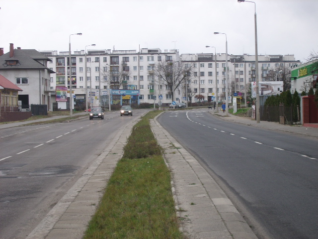 Adama Mickiewicza Street in Pionki